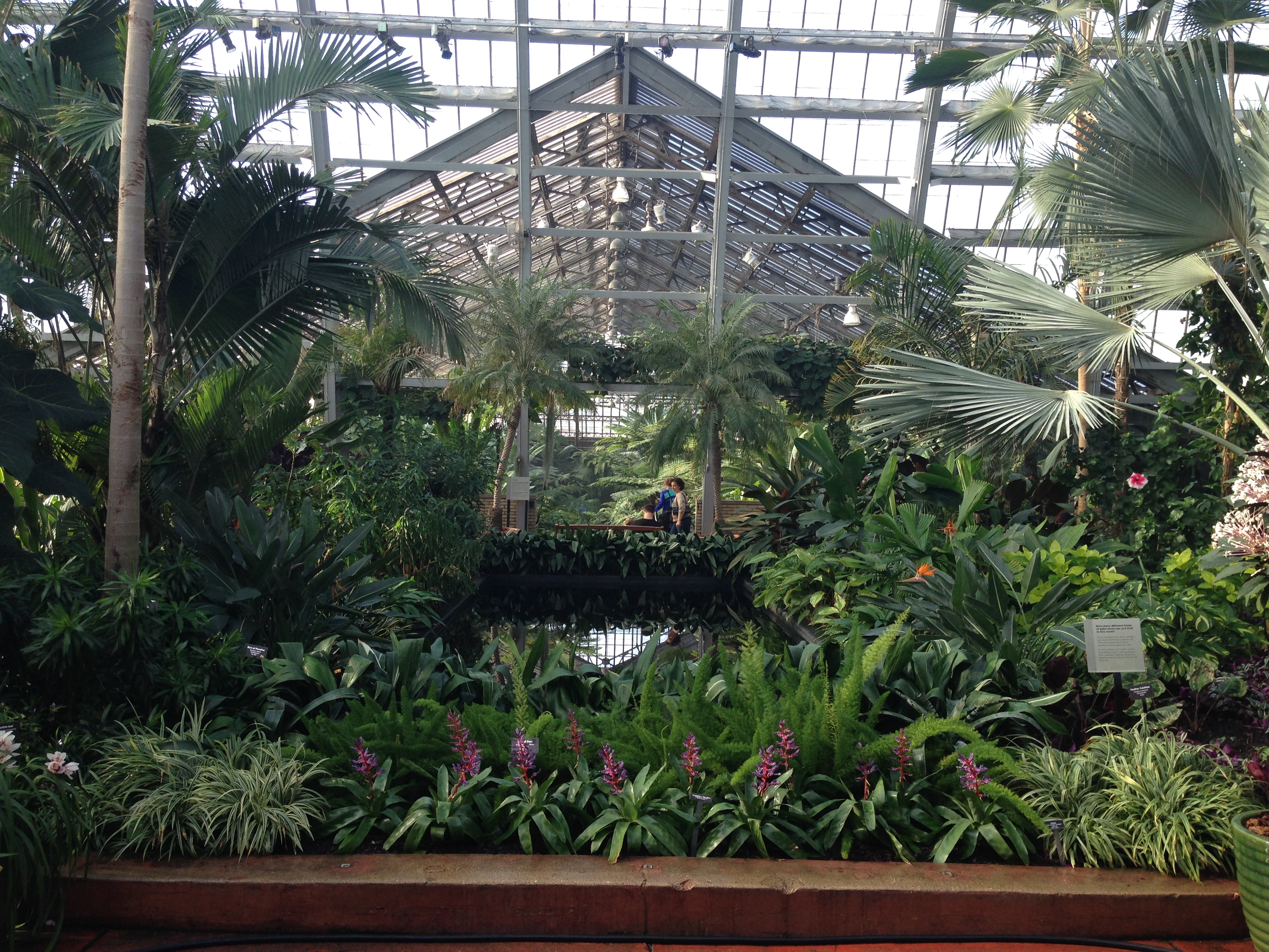 inside Garfield Park Conservatory